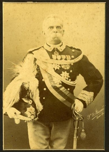 Fratelli D'Alessandri: King Umberto I of Italy (1844-1900).